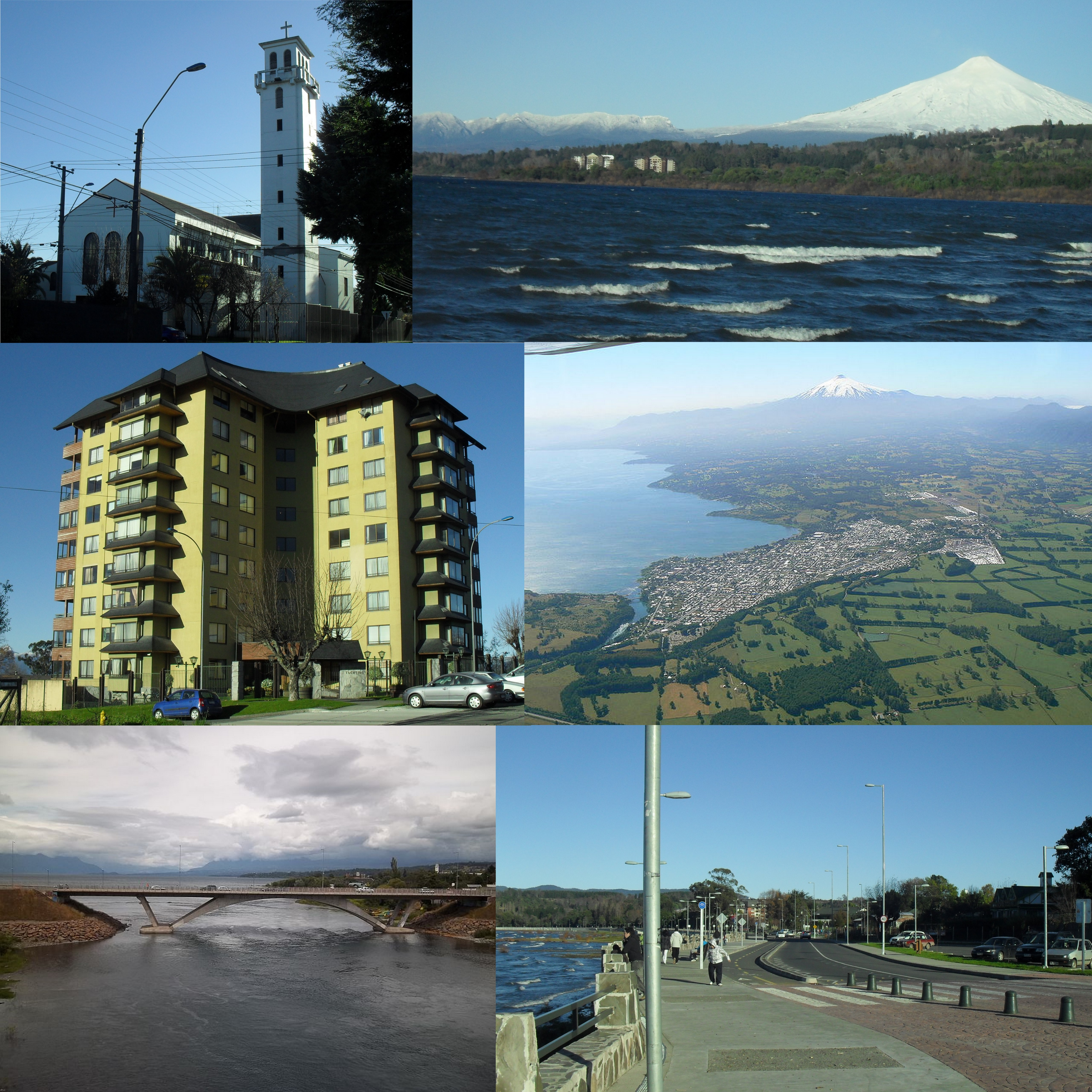 College of Villarrica